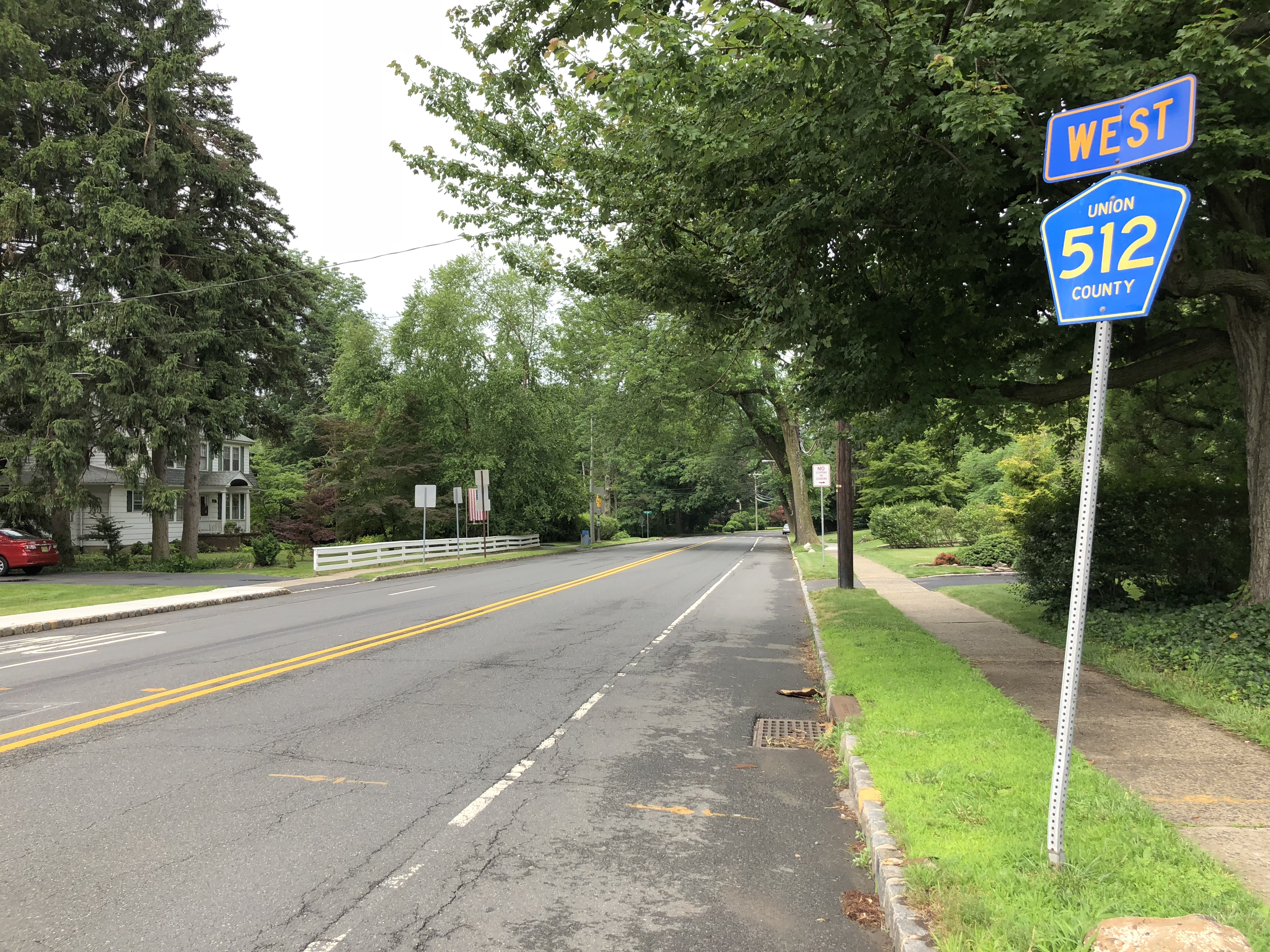 View west along Union County Route 512 (Springfield Avenue) at Maple Street in New Providence, Union County, New Jersey